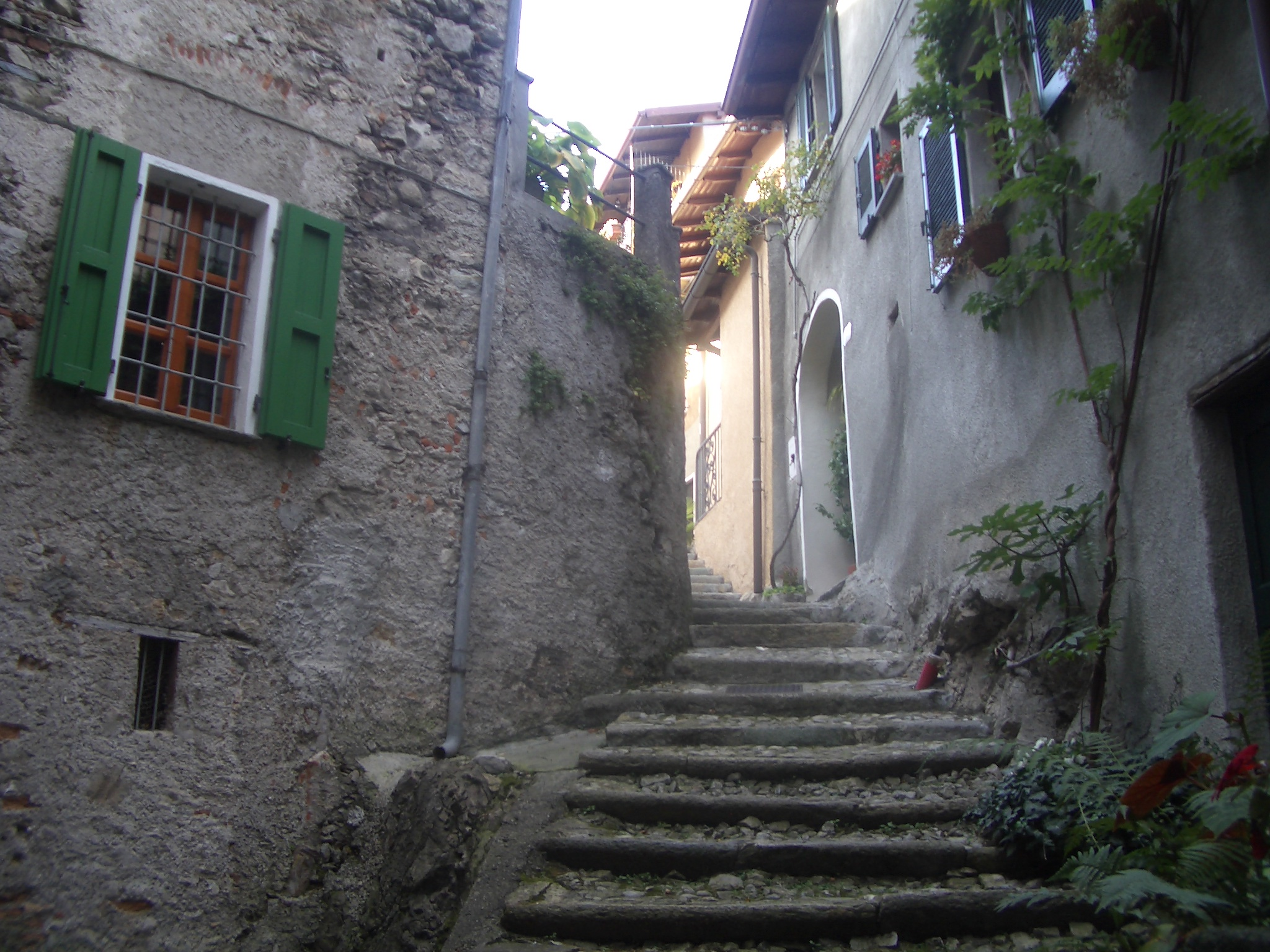 Castello Valsolda, a narrow street of the old village